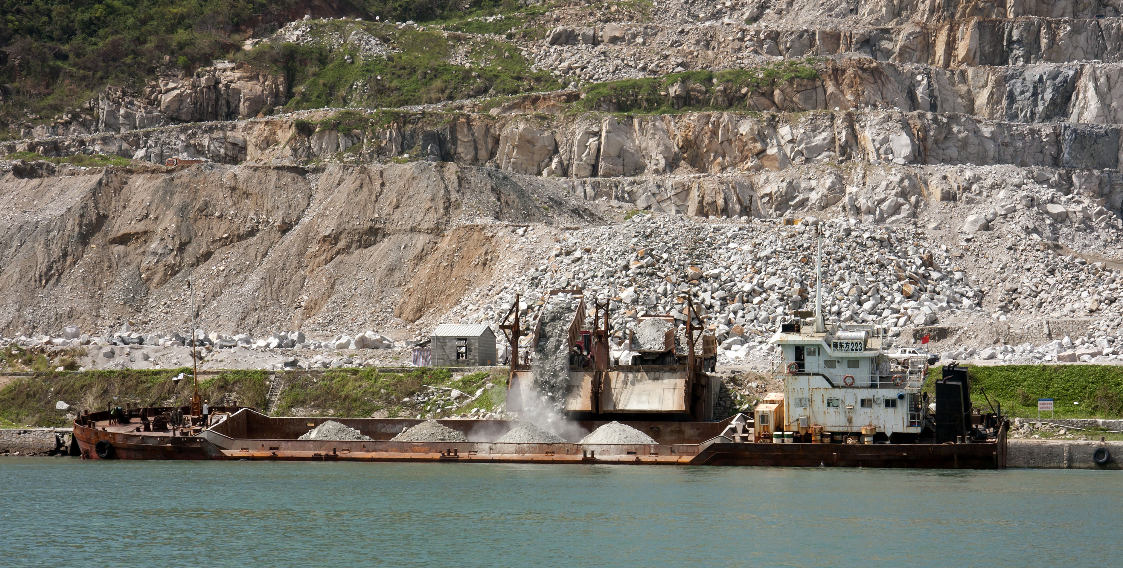 Loading at a Quarry near Sanya, China.